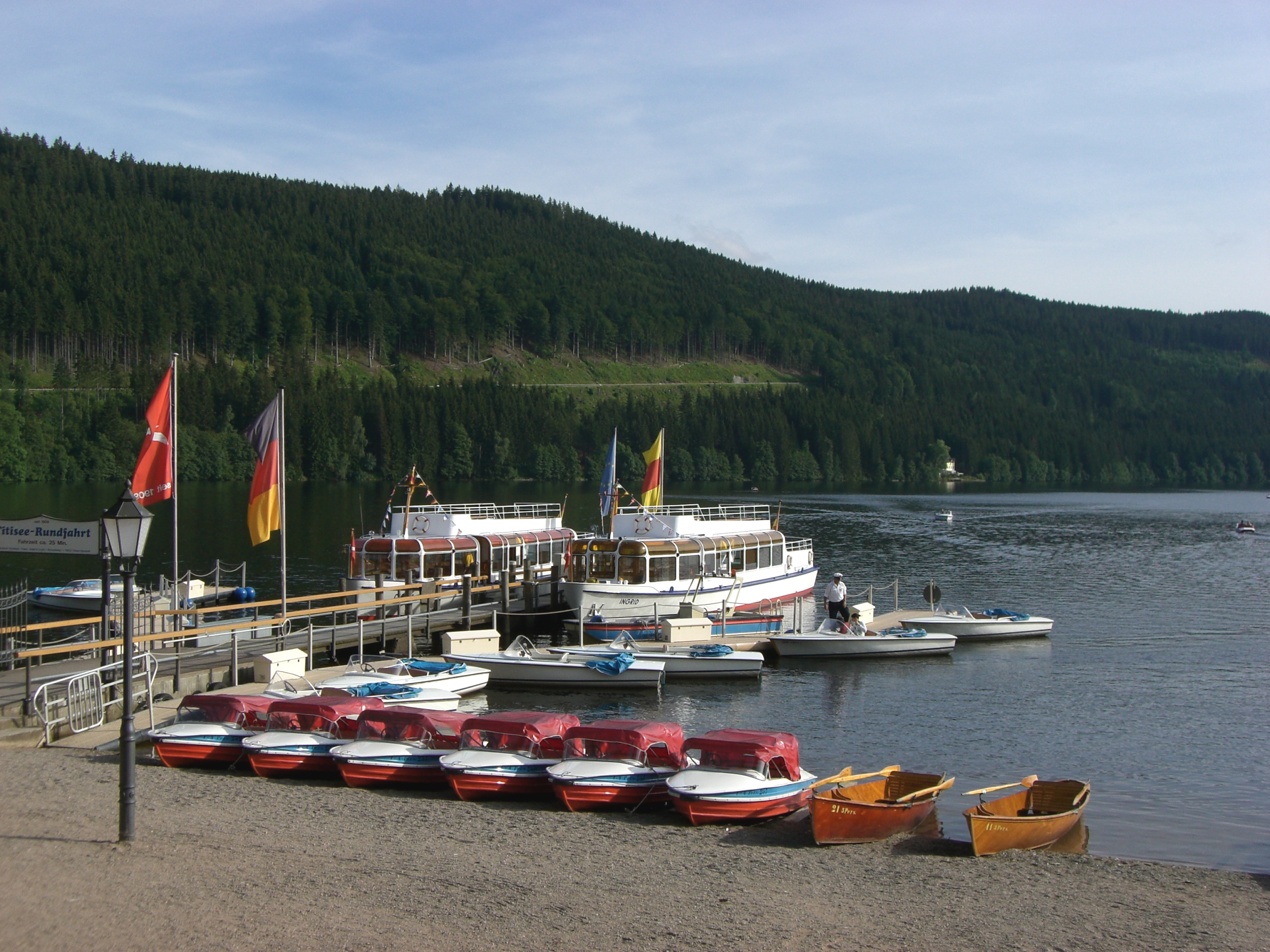 Titisee, Black Forest (Germany)